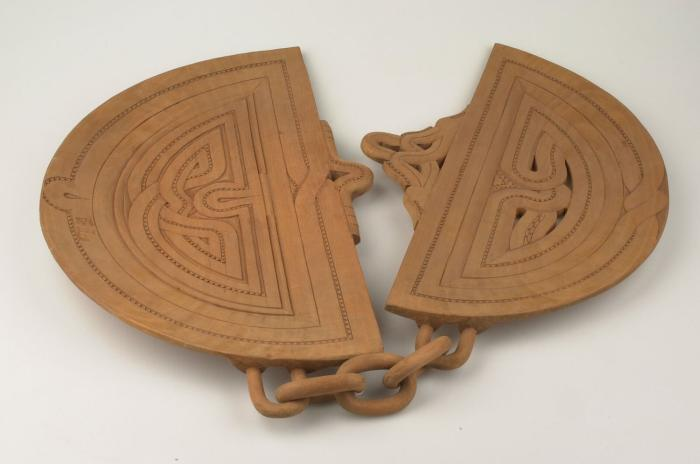 Two half plates, connected by a chain, all cut out of one piece of wood